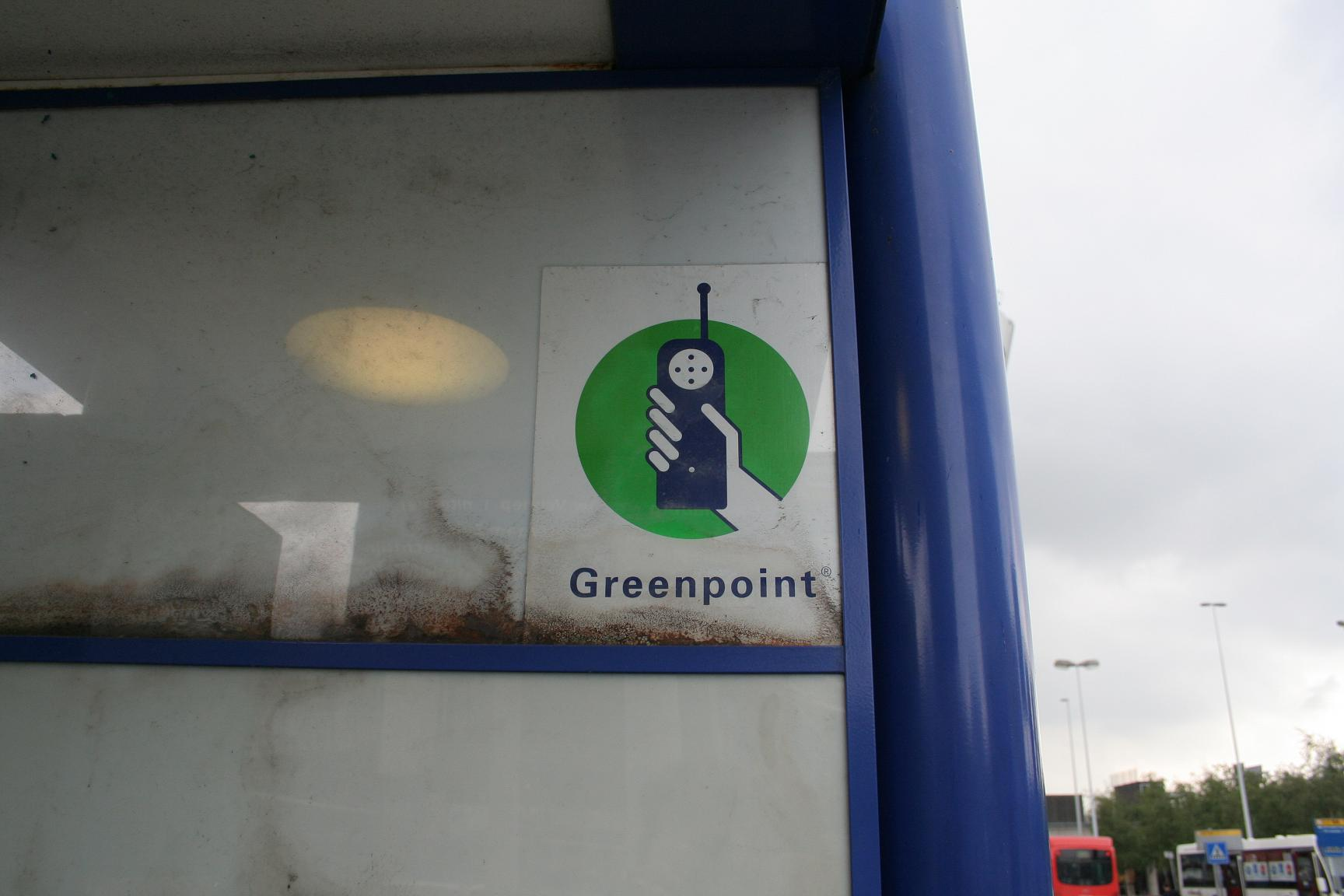 A sign of the Greenpoint network on Schiphol.